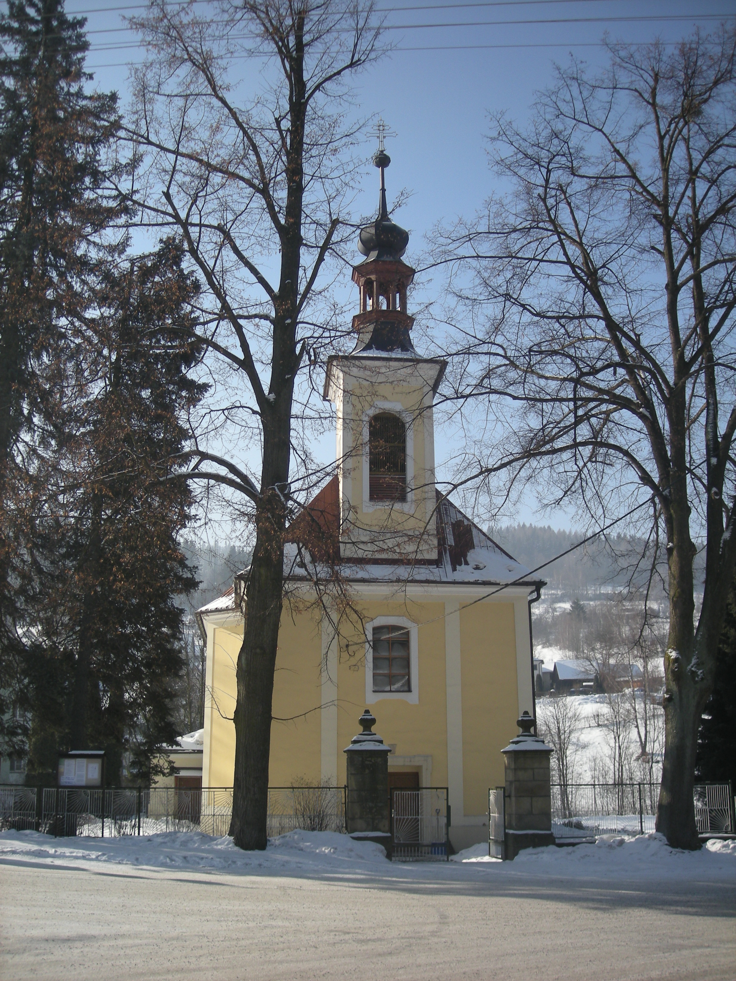 Assumption Church in Valašská Bystřice